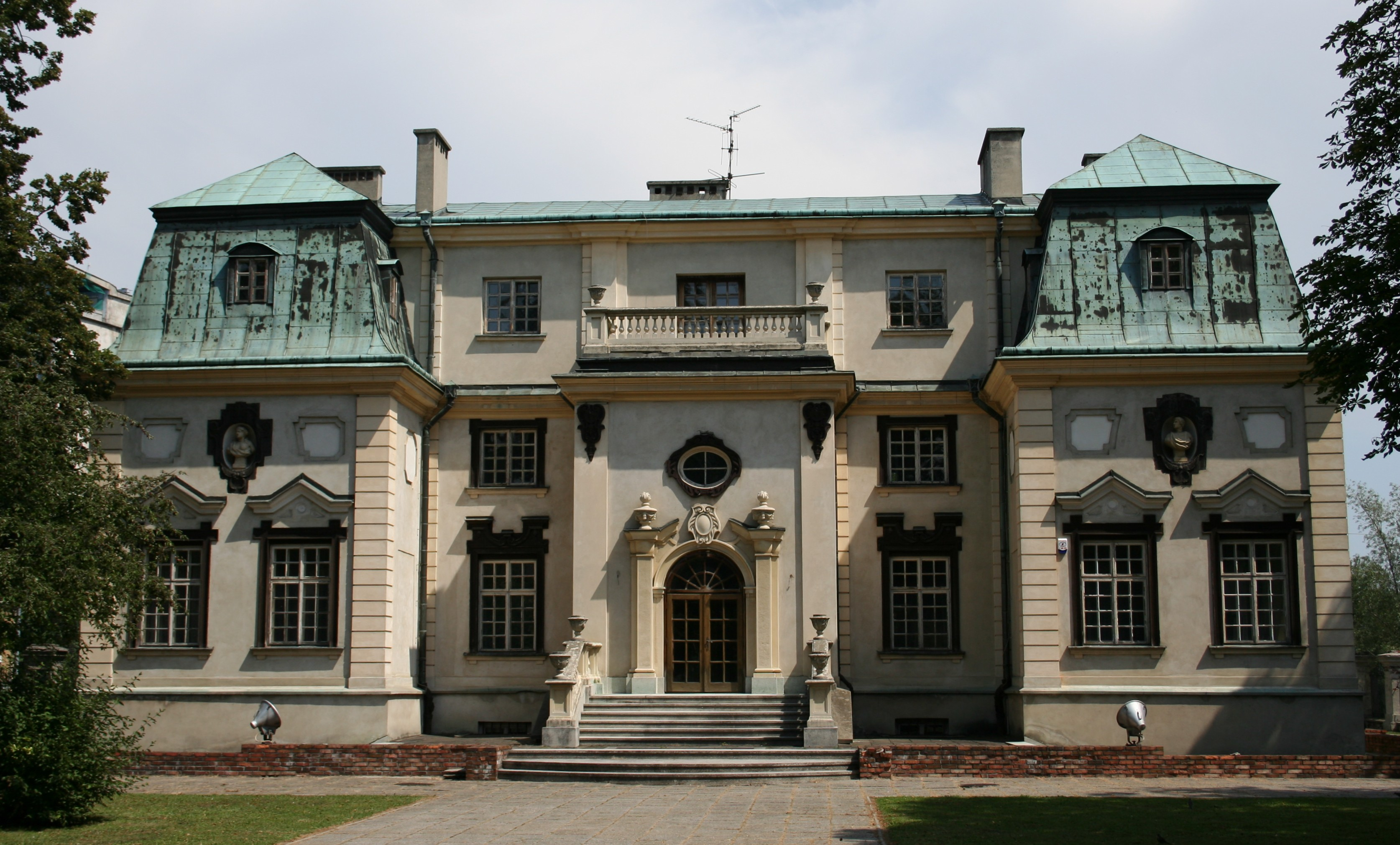 The summer palace of the Lubomirskis